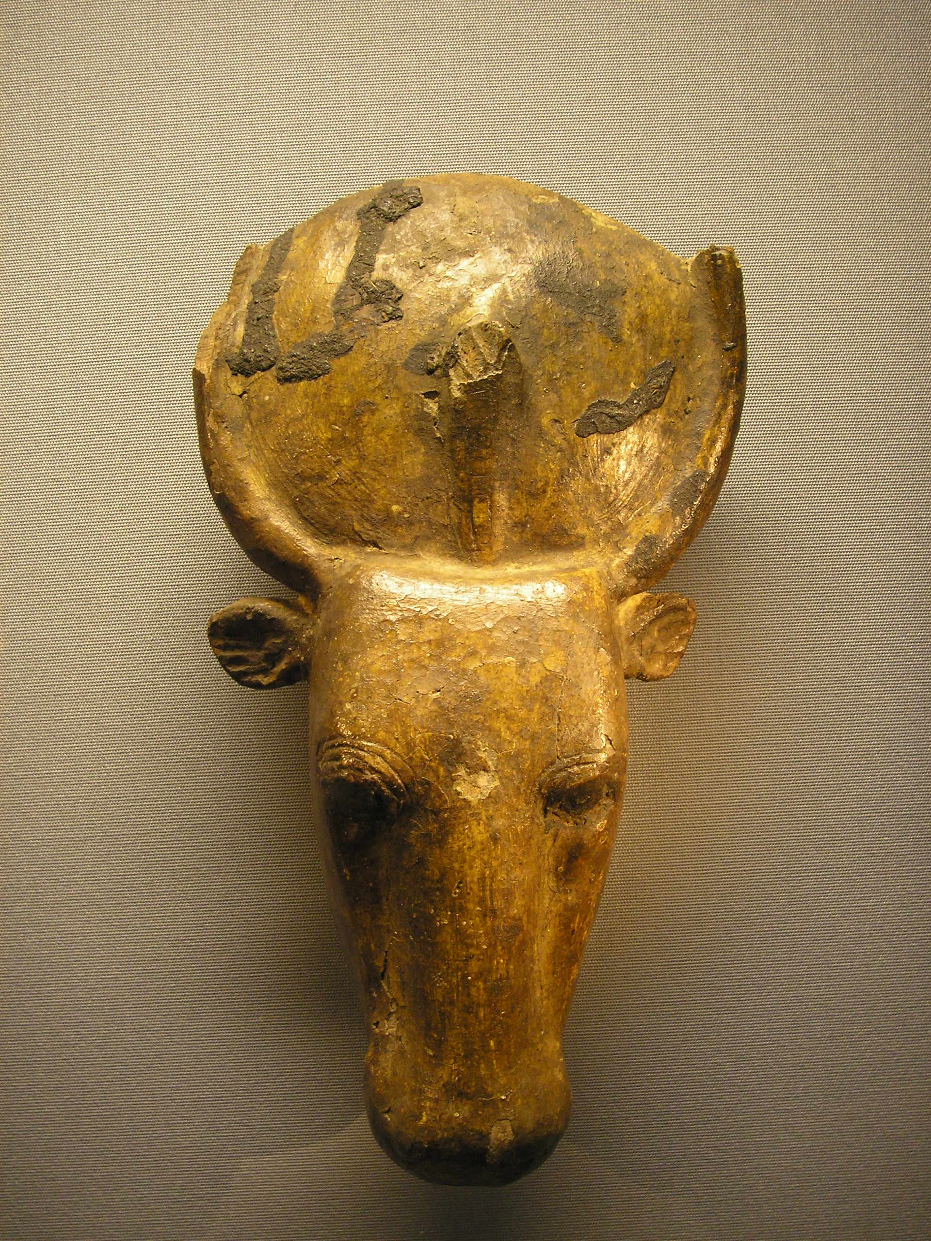 The bull Apis in the Kunsthistorisches Museum